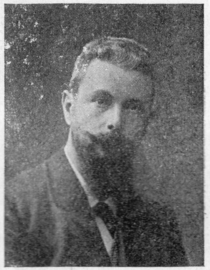 Dr Josef Berze